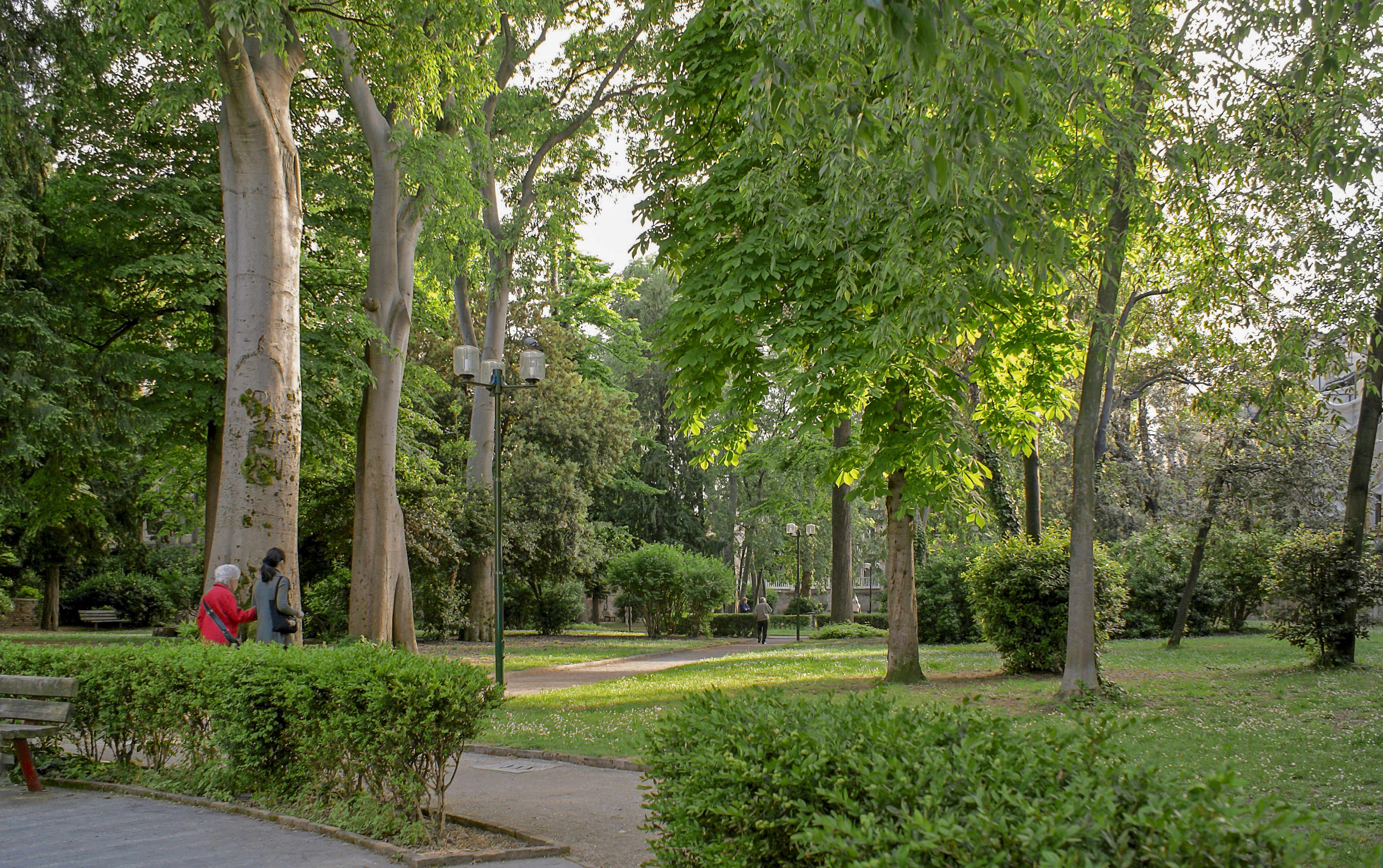 Savorgnan’s garden in Venice